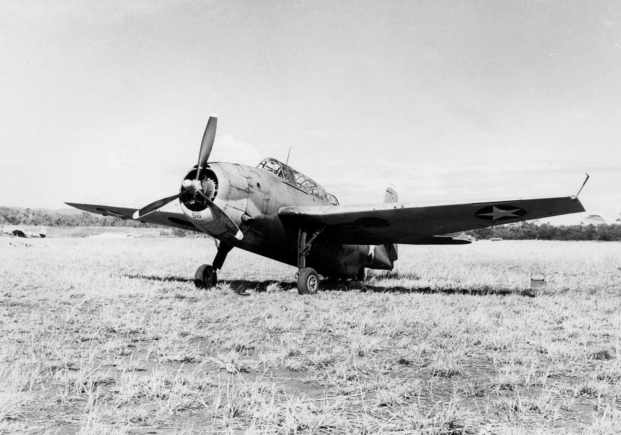 A U.S. Marine Corps Grumman TBF-1 Avenger of Marine Scout Bombing Squadron VMSB-131 Diamondbacks pictured parked on grass at Guadalcanal.